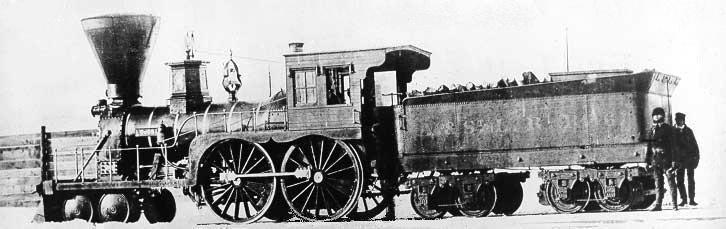 Locomotive Coos of the Atlantic & St. Lawrence Railroad; from a c. 1856 photograph taken in Longueuil, Quebec. (description by Hugh Manatee)